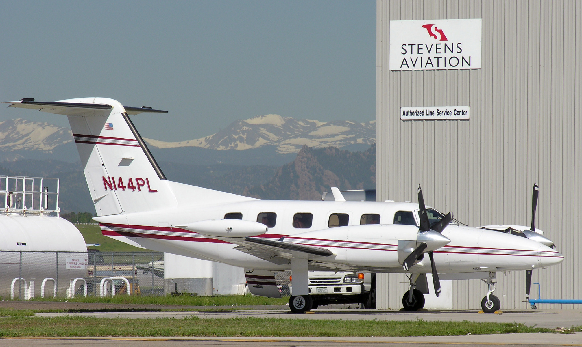 Piper PA-42 Cheyenne III, Rocky Mountain Airport, Denver, Colorado